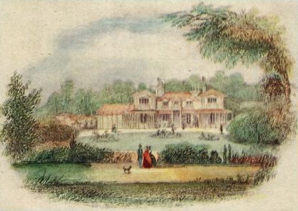 19th century coloured drawing of Charmandean, Broadwater, Sussex, England, home of Ann Thwaytes between 1841 and 1866. It was built around 1806 and demolished in 1963.